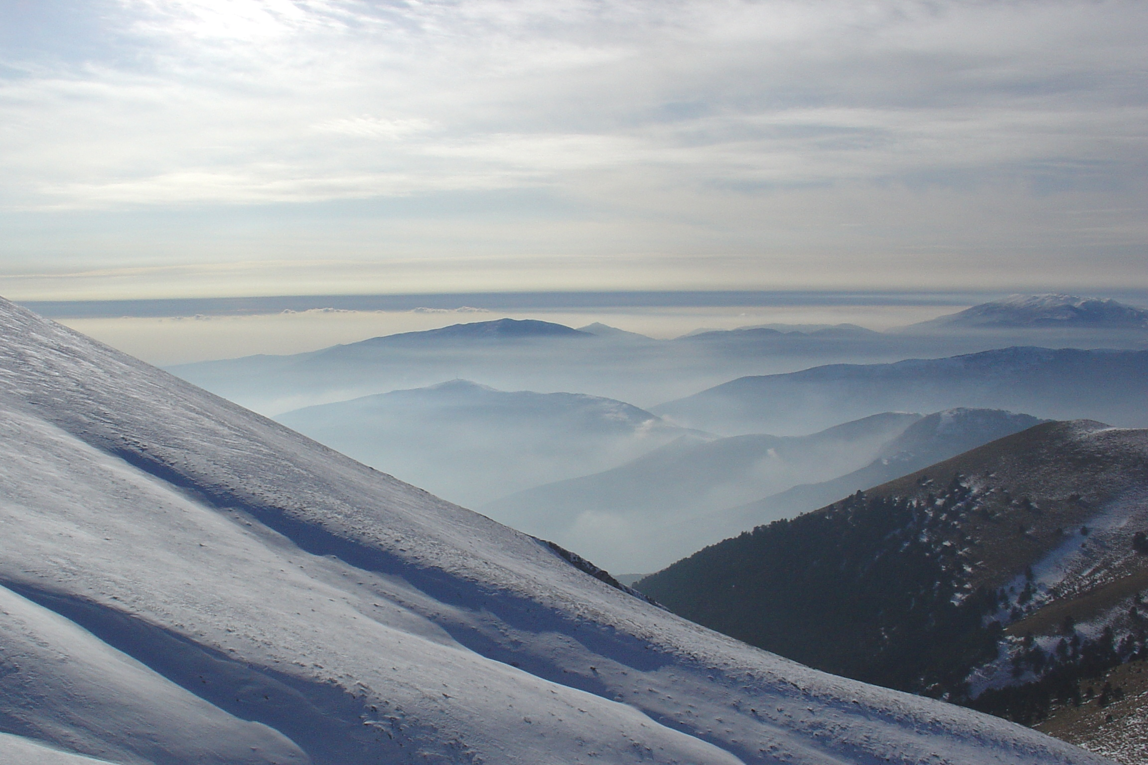 Driving to the top of the Falakro Oros, Drama prefecture, Greece.